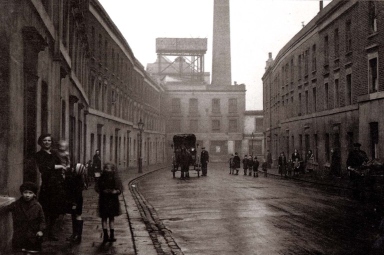 Upper Portland Road and Notting Hill Brewery.